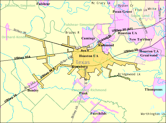 Map of Rosenberg, Texas